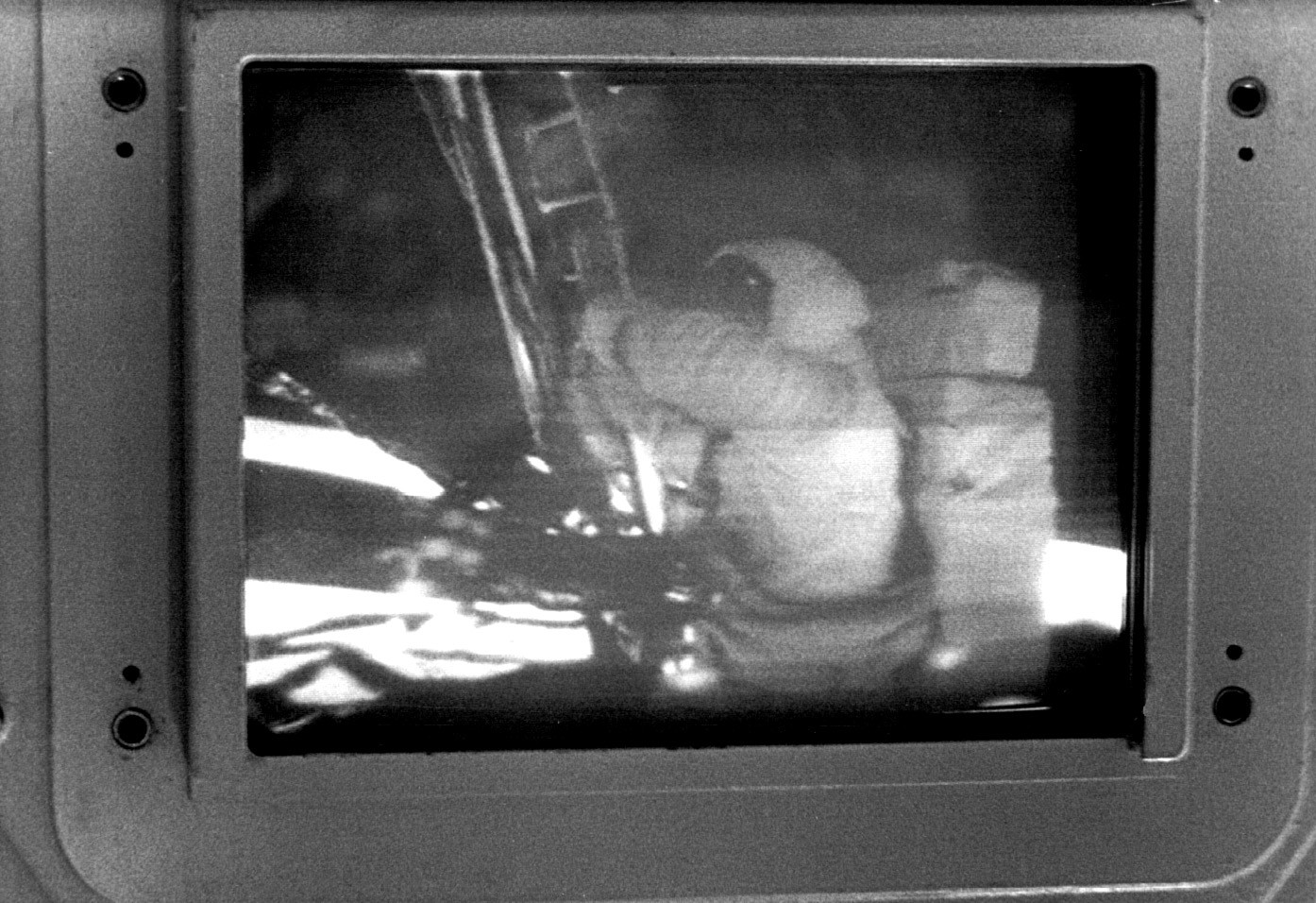 Apollo 11 moonwalk unconverted slow-scan television image, before conversion to NTSC. Photo taken at Honeysuckle Creek tracking station (Australia). Text from Apollo 11 TV images as seen at Honeysuckle Creek: A11TV05.jpg Armstrong depositing contingency sample [description possibly penned by Honeysuckle Admin officer Bernard Scrivener on the back of the prints held by John Saxon] GET: 109:29:18 [Ground Elapsed Time, determined with reference to the Apollo Lunar Surface Journal] Actually, Neil is retrieving the Hasselblad 70mm camera from the LEC before mounting it on the RCU bracket on the front of his suit. At this point, international viewers were seeing Goldstone's picture again. [timing notes by Colin MacKellar]